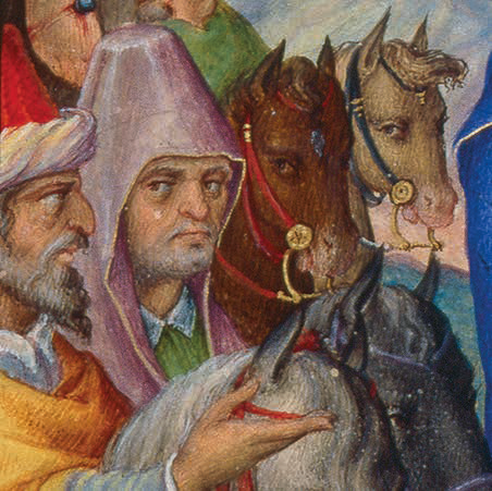 Detail of a possible self-portrait in the Crucifixion, illumination by Estêvão Gonçalves Neto dated 1616-1622, of the Missal of the Academy of Sciences, Lisbon, Portugal.